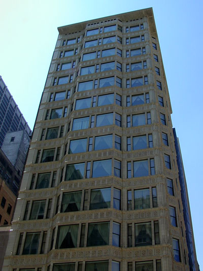 Reliance Building, by Daniel Burnham, at Chicago, Illinois, 1890-1894. Photo Arthur Sehn, 2006.